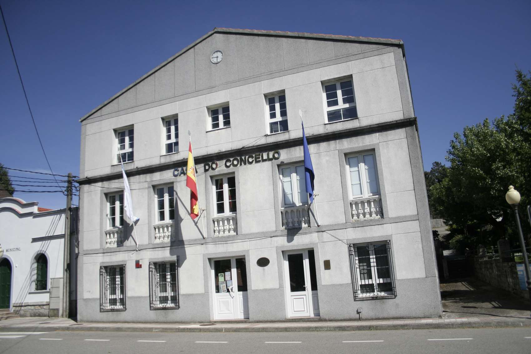 Town Hall in Lobios (Spain)